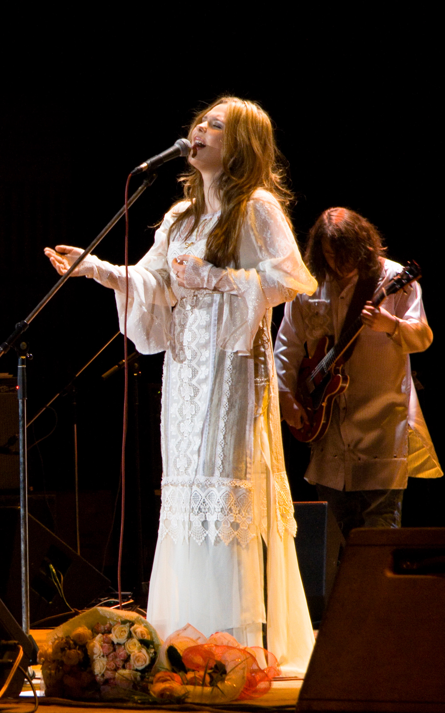 Russian singer Pelagea performs in Novosibirsk. Band guitarist Pavel Deshura is seen in the background.